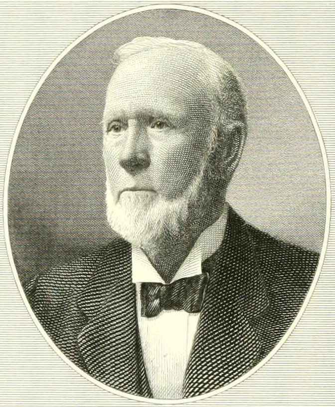 Amos L. Allen (Maine Congressman)